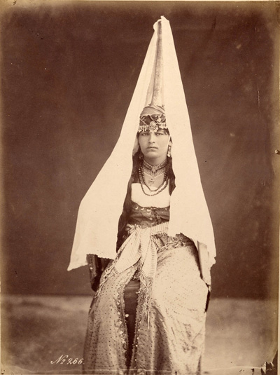 A picture (by French photographer Bonfils showing a typical but formally dressed Druze woman from the shouf region of the shouf mountains, now part of Lebanon (circa 1870). Her unique head gear is called a tartur, popular with Druze women at the time.